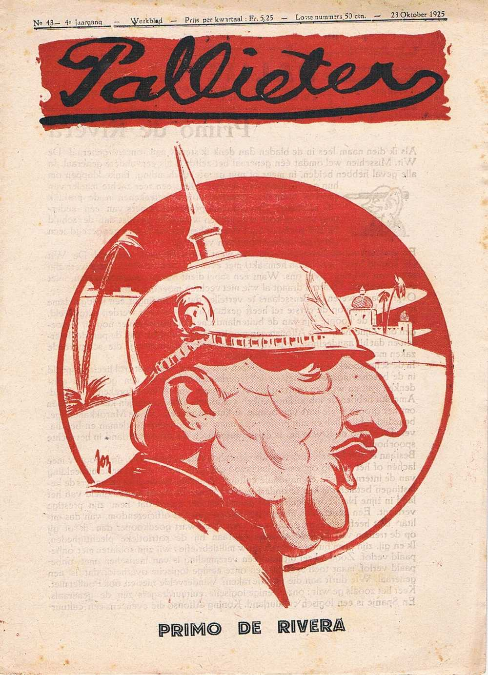 Miguel Primo de Rivera. Front page of the Flemish magazine Pallieter (1922-1928). All front pages were designed and illustrated by Jos De Swerts (1890-1939).